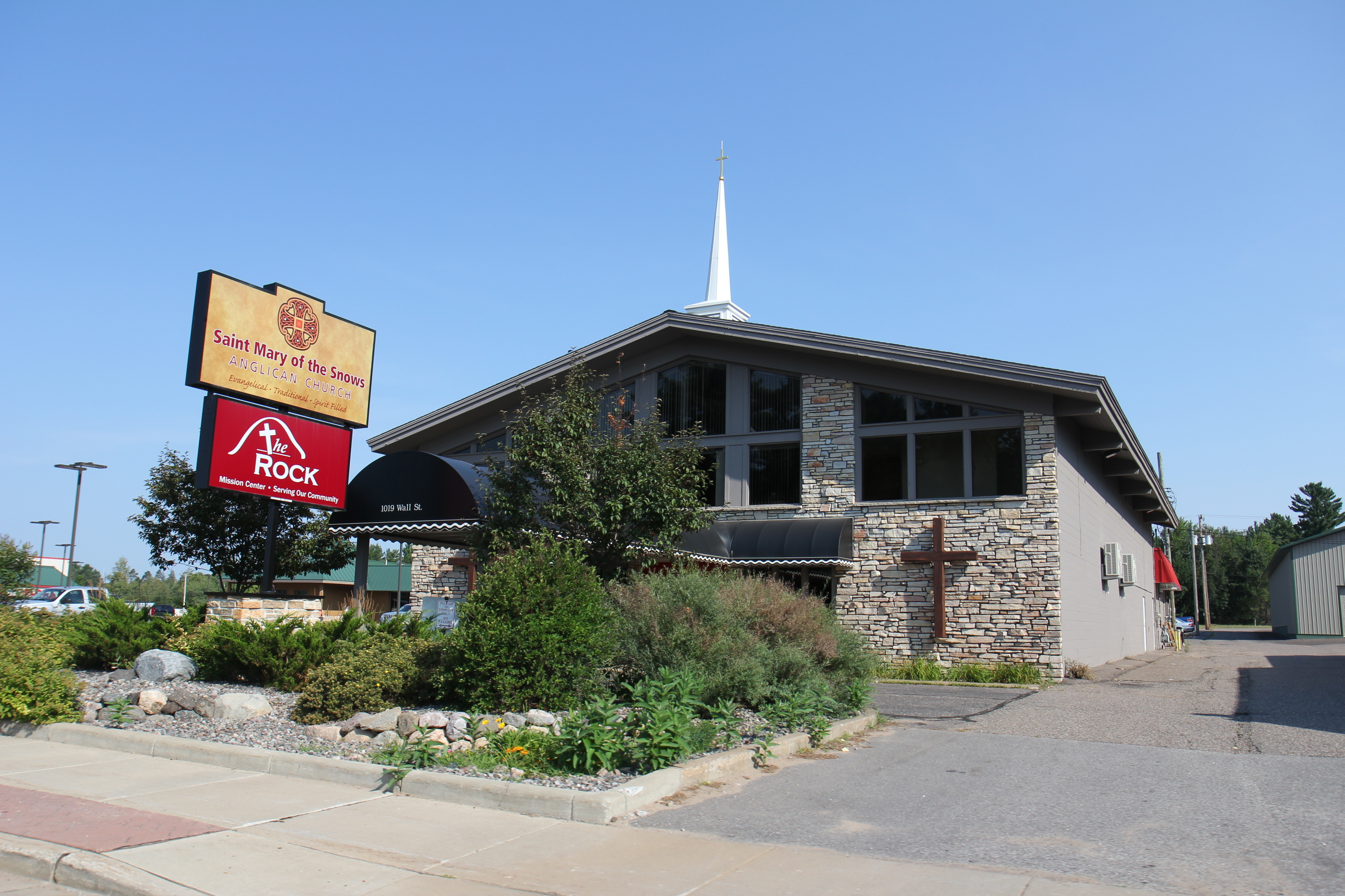 Saint Mary of the Snows Anglican Church in Eagle River, Wisconsin.